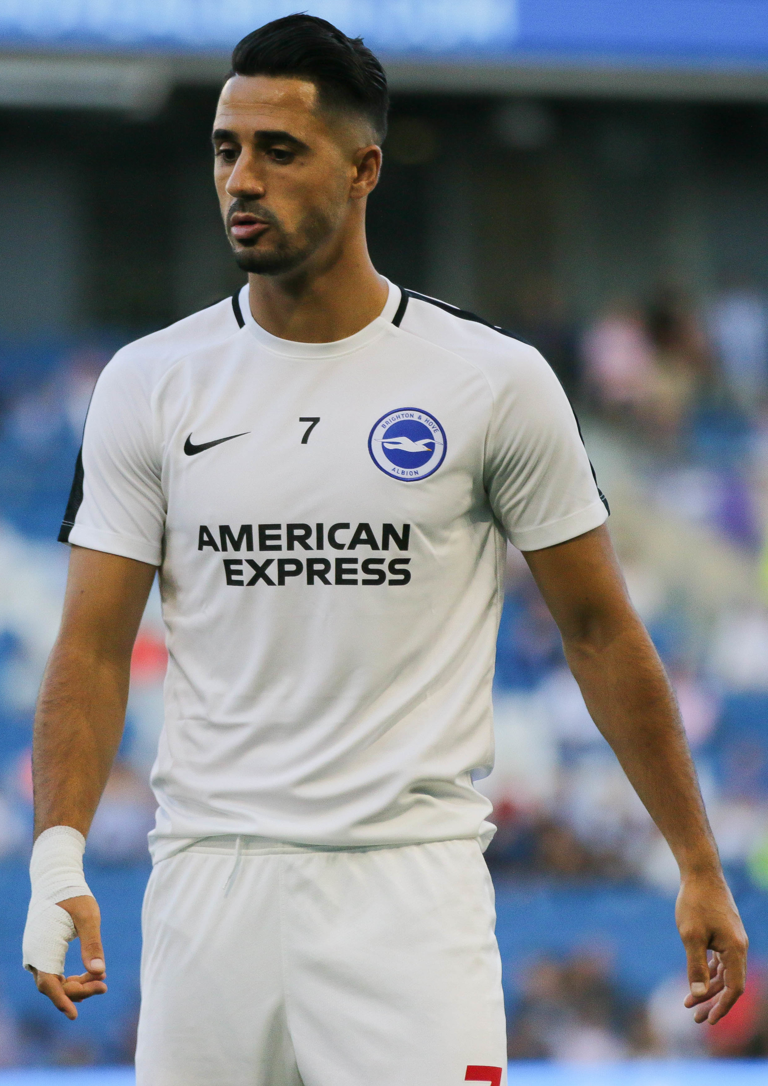 BHA v FC Nantes pre season 03 08 2018-18.jpg